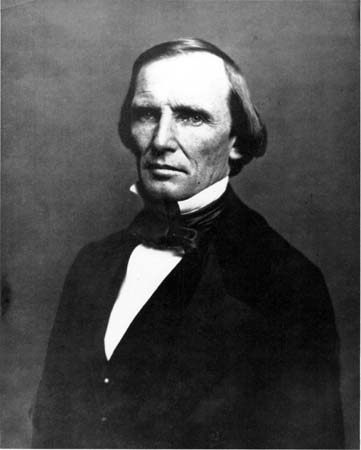 photo of Benjamin McCulluch (1811-1862)